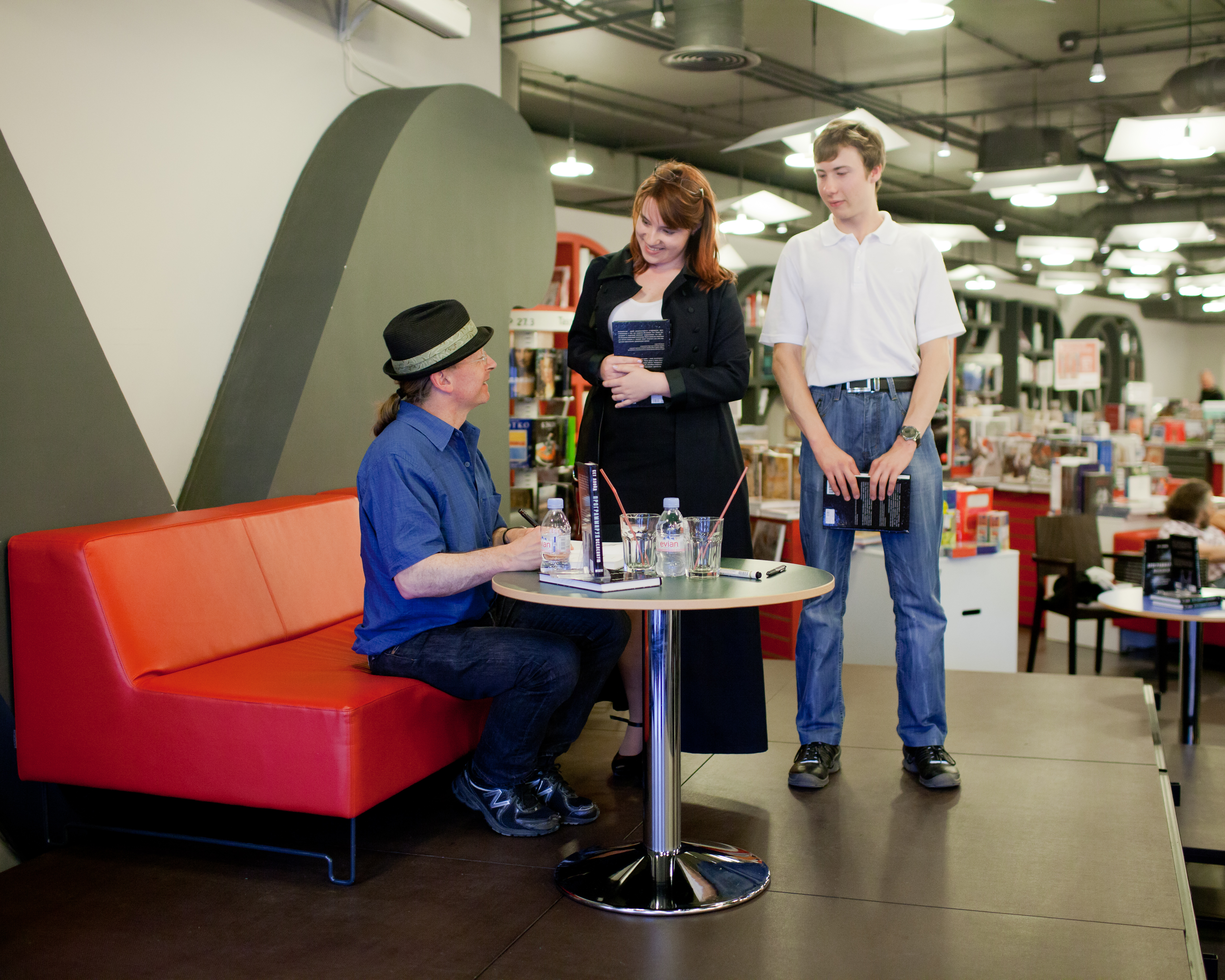 Seth Lloyd at the presentation of the book Programming the Universe at the "Moscow bookstore, on Vozdvizhenka, Moscow